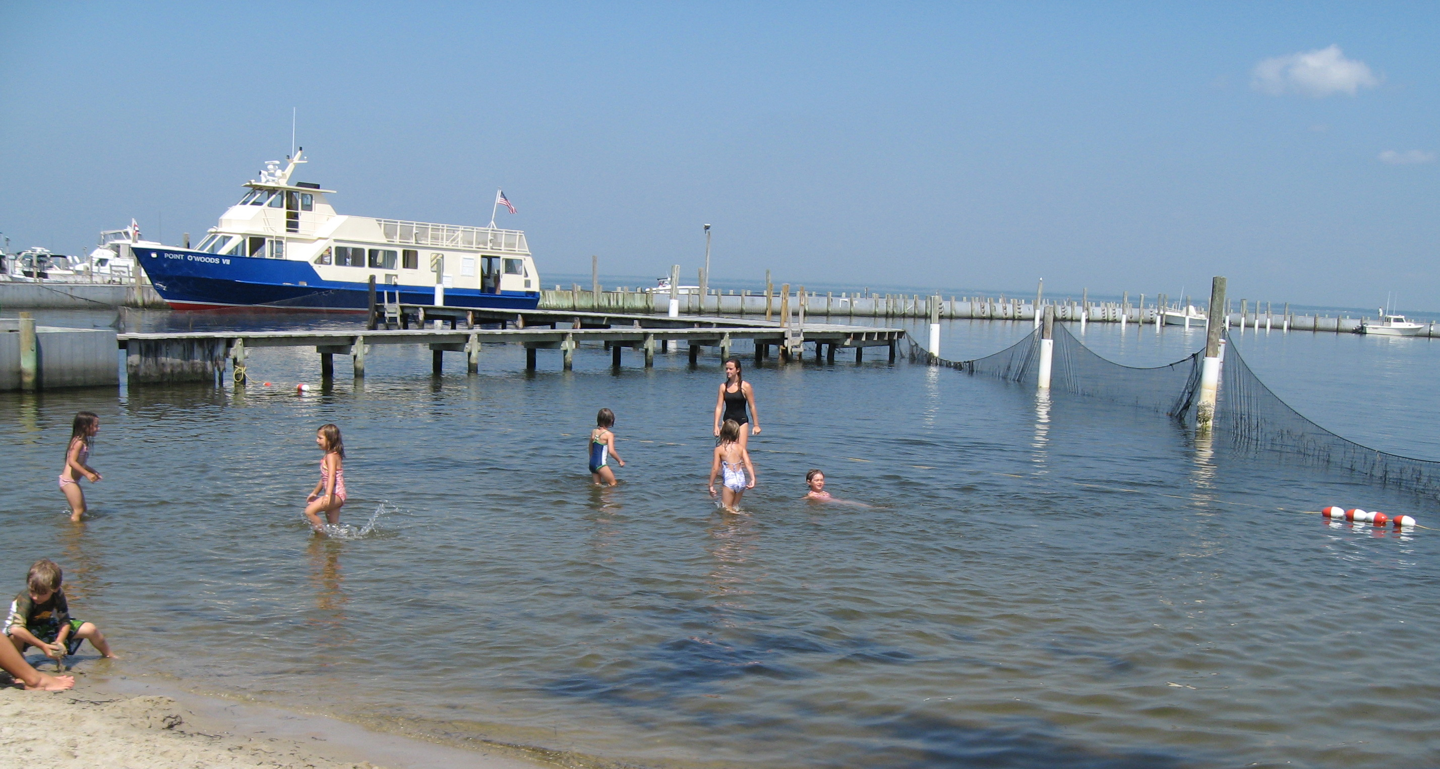 The bay harbor with the swimming area at Point O' Woods, Fire Island, New York.